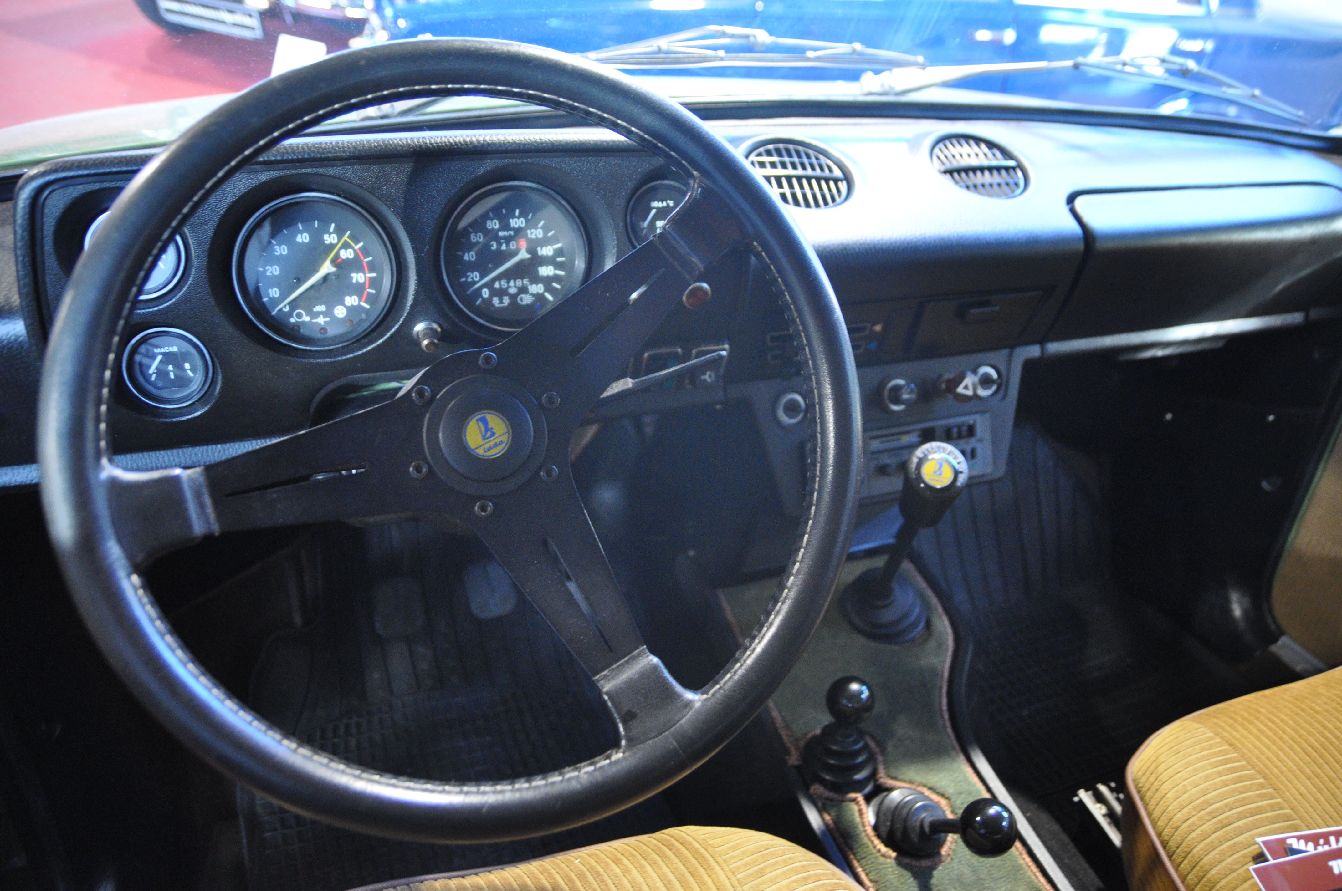 Budapest, Hungexpo, Automobil and Tuning Show 2017